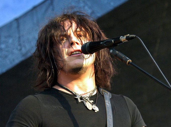 Jack White in concert at the Austin City Limits Music Festival, 2006, by photographer Steve Hopson. See more photos at: . Use of this photo requires attribution. Please credit, Steve Hopson Photography, .